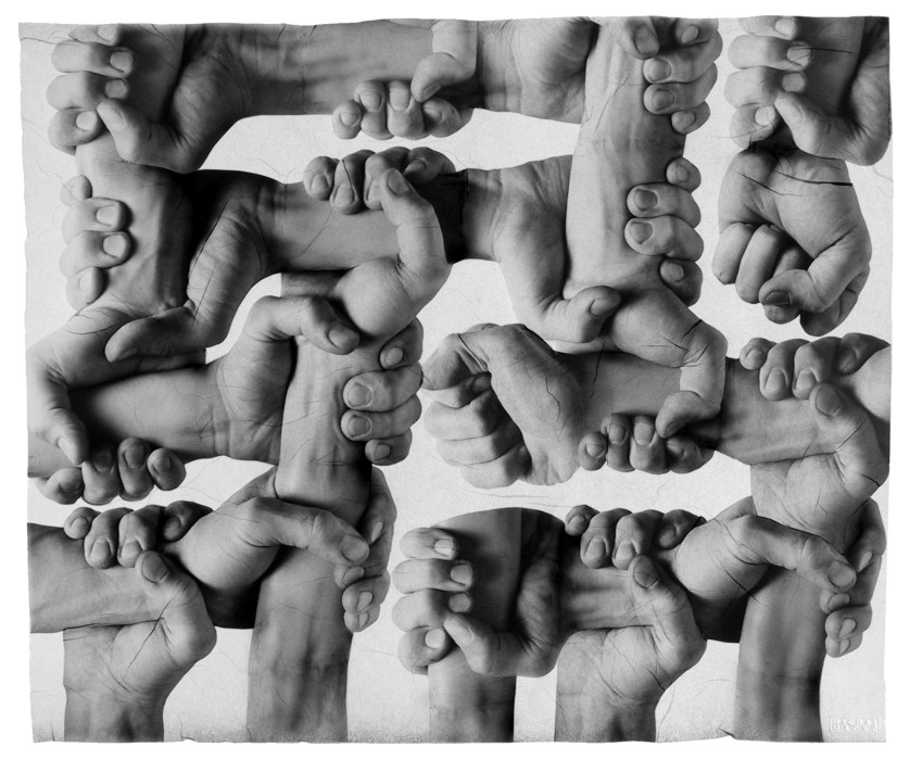 Photograph from Michal Macků